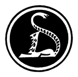 Sign of the firm „Deutsche Werke AG Erfurt“ (1921-1924)